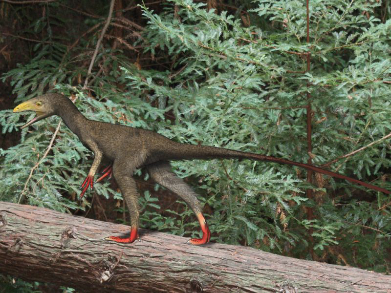 Sinocalliopteryx gigas from the Early Cretaceous of China. Digital.